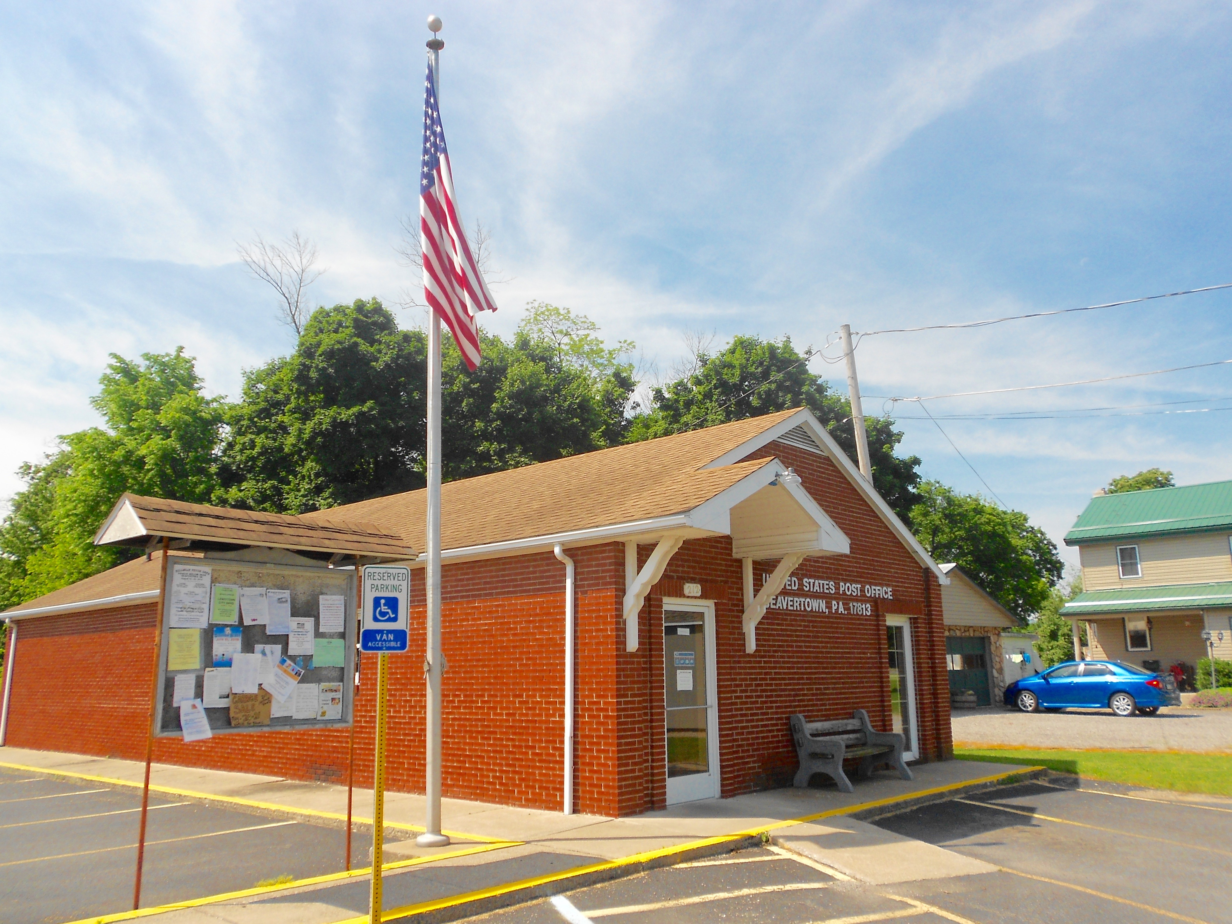 United Stats Post Office in Beavertown, Snyder County, Pennsylvania, zip code 17813